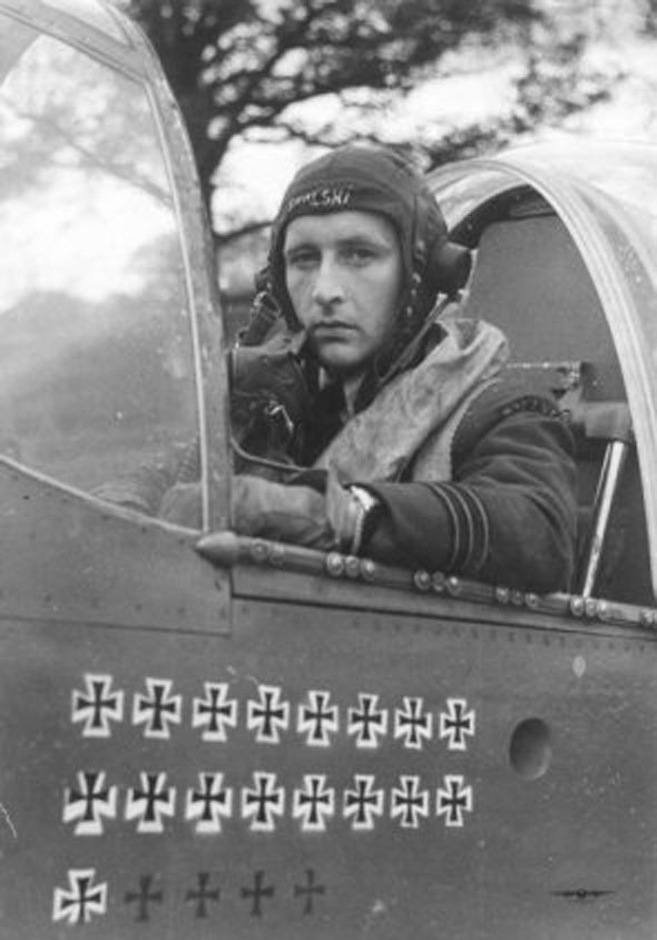 Stanisław Skalski, zdjęcie z czasów II WŚ.